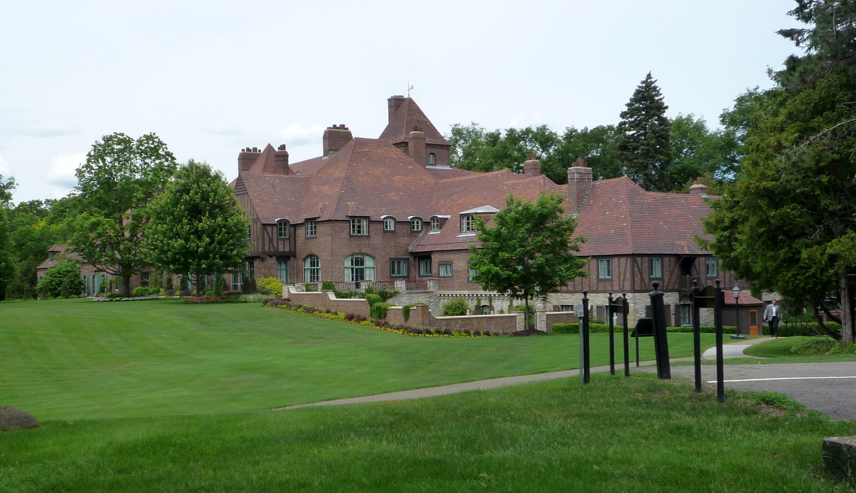 Cargill Lake Office, occupying a former mansion, houses the offices of the giant multi-national corporation's top executives and sits on the campus of the corporate headquarters in Minnetonka, Minnesota, USA.